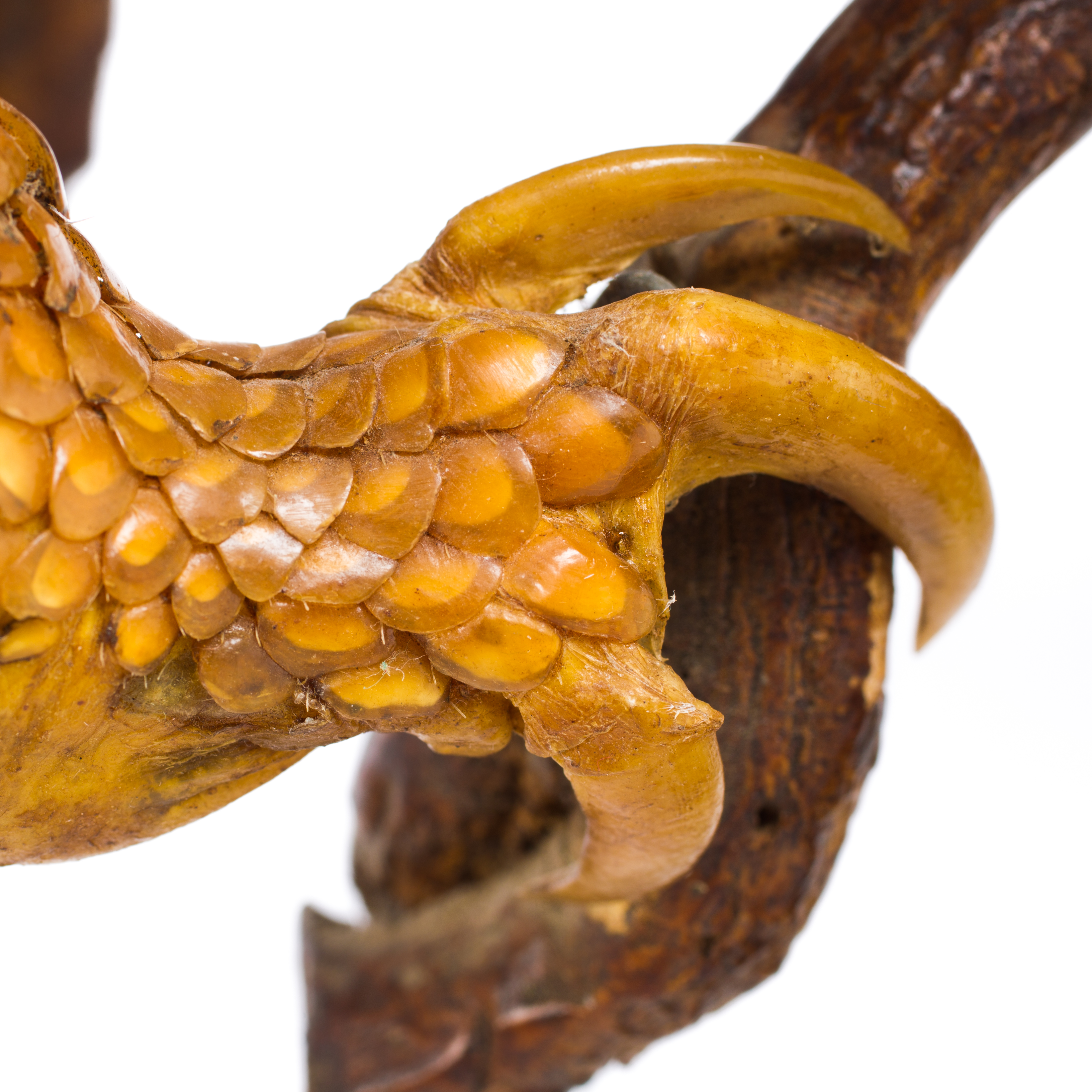 A pangolin in the permanent collection of The Children’s Museum of Indianapolis. This is specifically a ground pangolin (Manis temminckii), also known as Temminck's pangolin or the Cape pangolin. The pangolin is a protected species. This artifact was donated to the museum by the Office of Law Enforcement at the U.S. Fish and Wildlife Service.